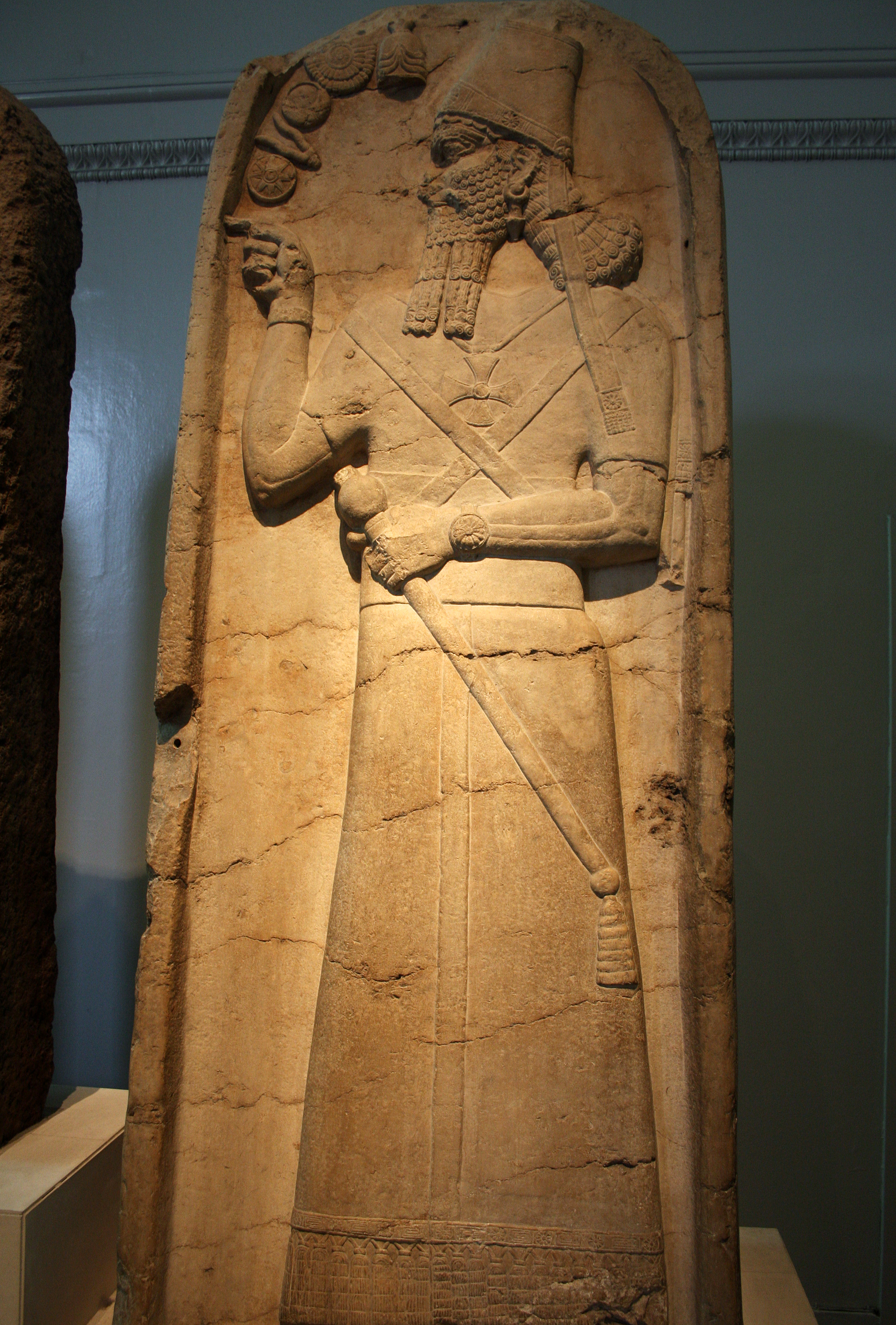 Shamshi-Adad V, Assyrian king 823–811 BC. The pictures shows a stela at the British Museum in London.